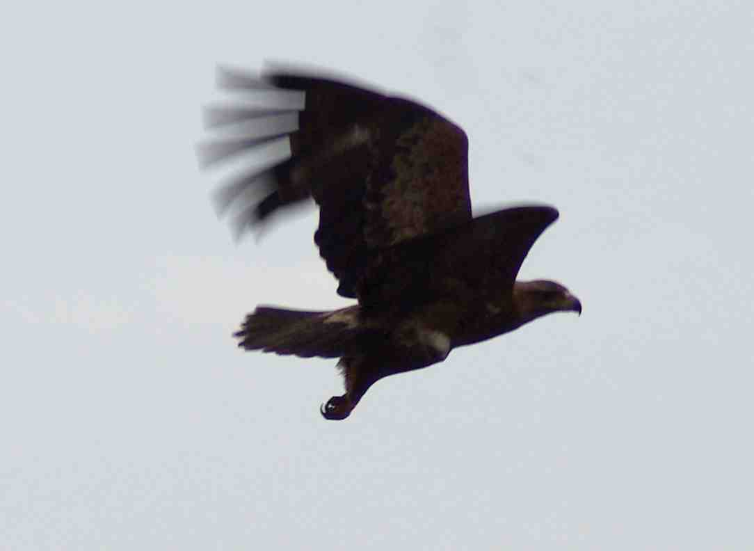 Tawny Eagle, Aquila rapax rapax, Masai Mara National Park, Kenya. The time stamp is 10 hours too early.